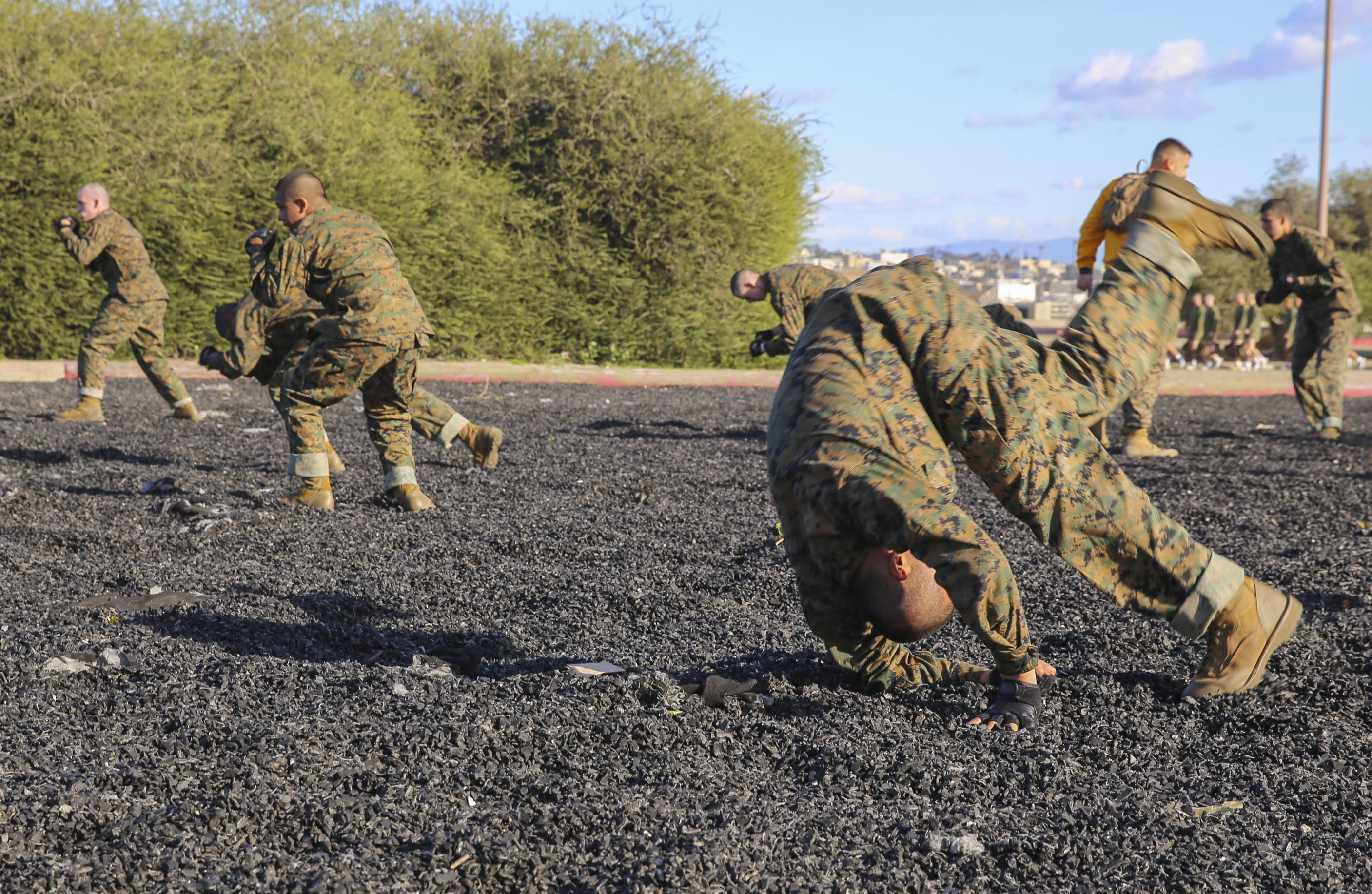 A recruit of Hotel Company, 2nd Recruit Training Battalion, executes a forward shoulder roll